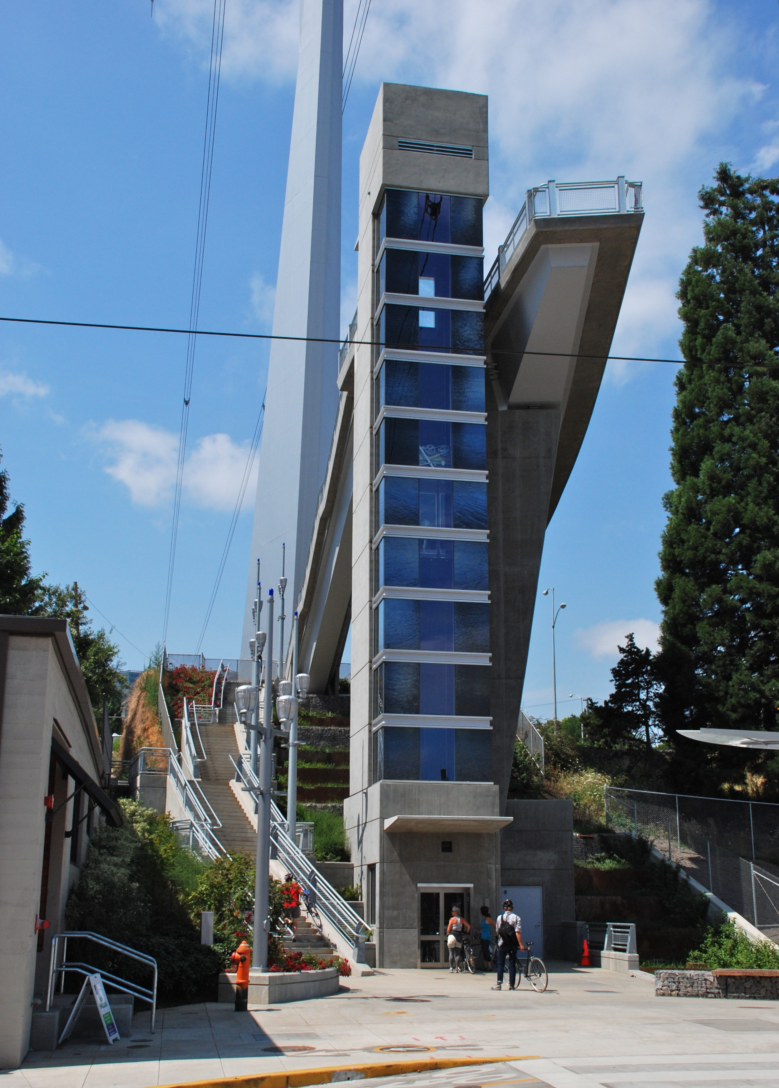 The elevator tower and stairway leading up to the east end of the Gibbs Street Pedestrian Bridge (in Portland, Oregon), from Moody Avenue in the South Waterfront District. In this photo, three cyclists are waiting for the elevator, while a fourth cyclist has opted to carry his bike up the stairs (perhaps out of concern that not all four bikes would fit, or maybe just impatience, or maybe just for the exercise!). The even taller tower, which goes out of the frame, is the support tower of the Portland Aerial Tram, a 3,000-foot (1 km) cableway connecting Oregon Health & Science University (on Marquam Hill) with the South Waterfront District. To the right of the elevator tower, near its top, is a viewing platform; it is level, but perspective distortion in this photograph makes it appear otherwise.